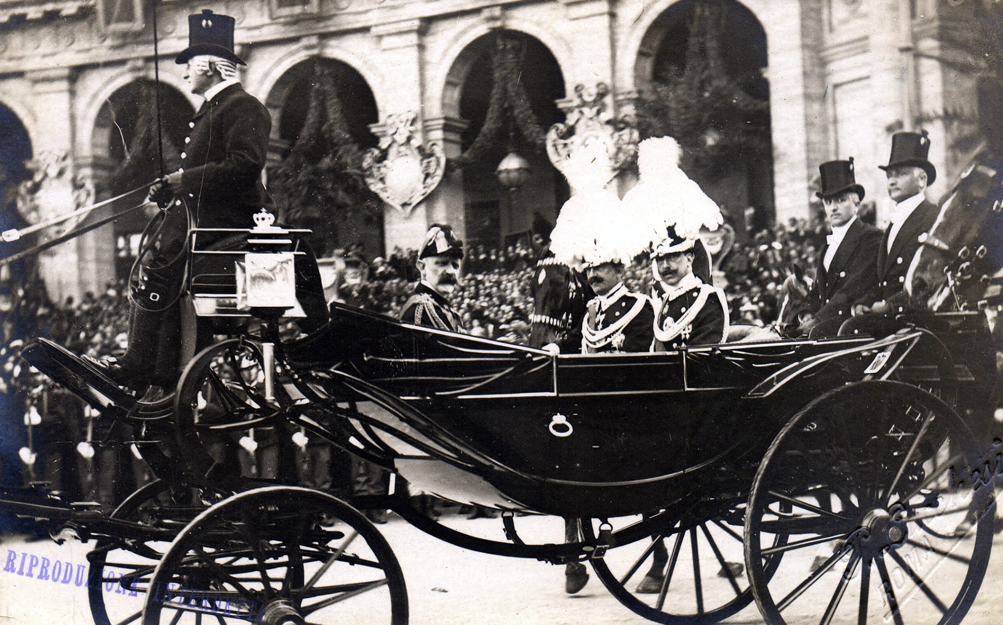 S. M. King accompanied by the LL. AA. RR. Vittorio Emanuele Count of Turin and Thomas of Savoy, Duke of Genoa goes to Parliament for the swearing of allegiance to the Bylaws